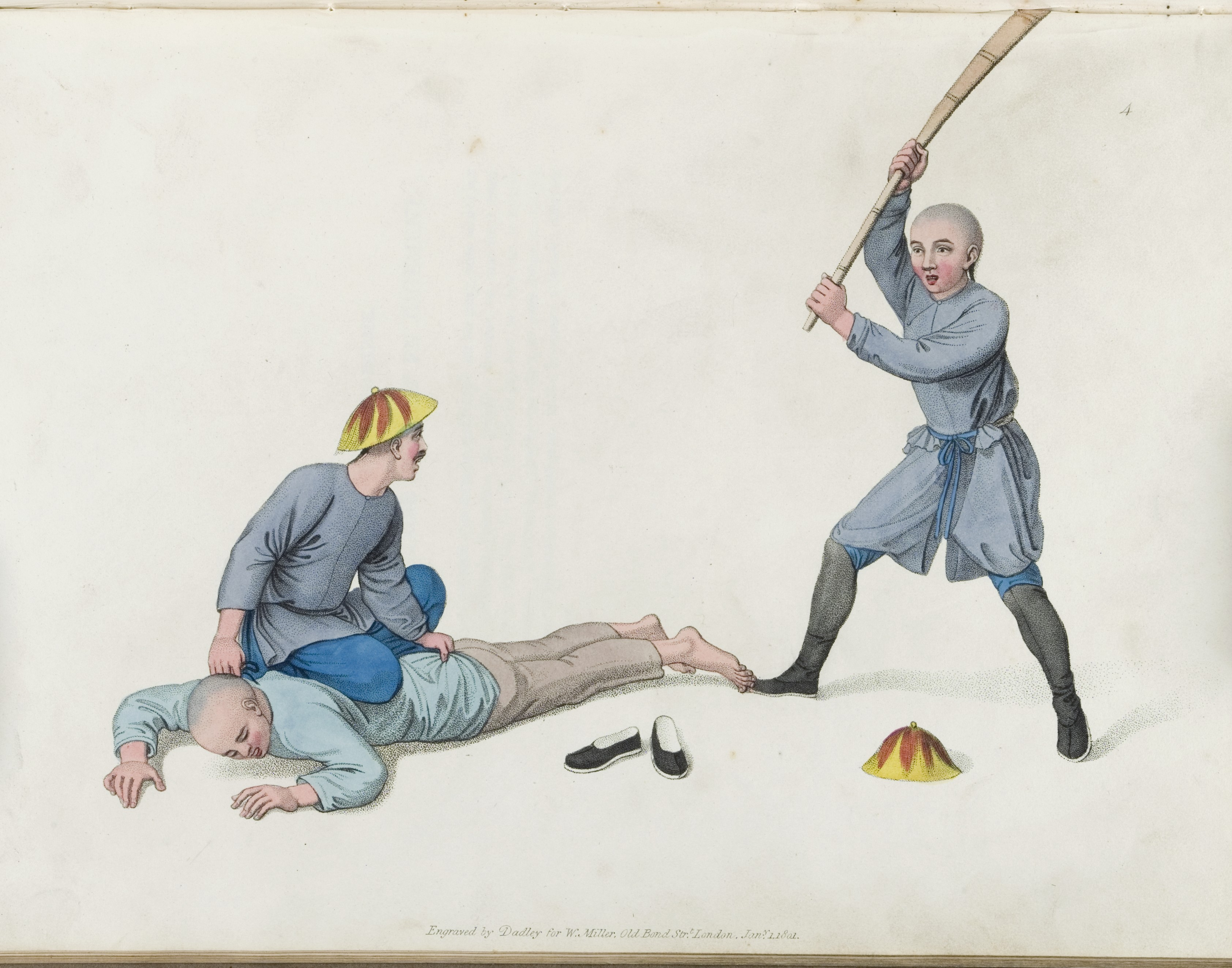 An offender undergoing the bastinade. Rare Books Keywords: Punishment; Crime